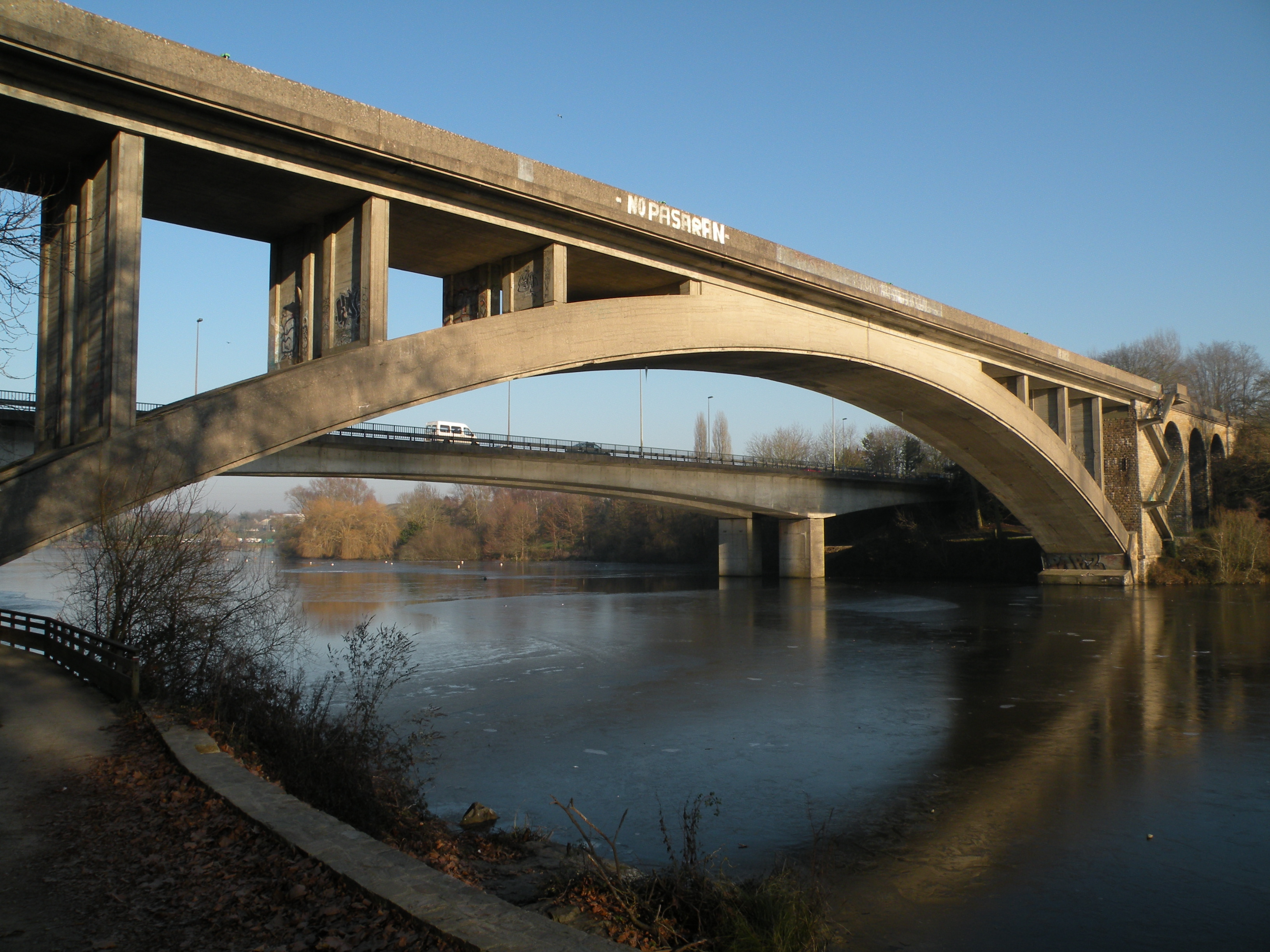 Pont de la Jonelière : bridge over Erdre river between Nantes and La Chapelle-sur-Erdre